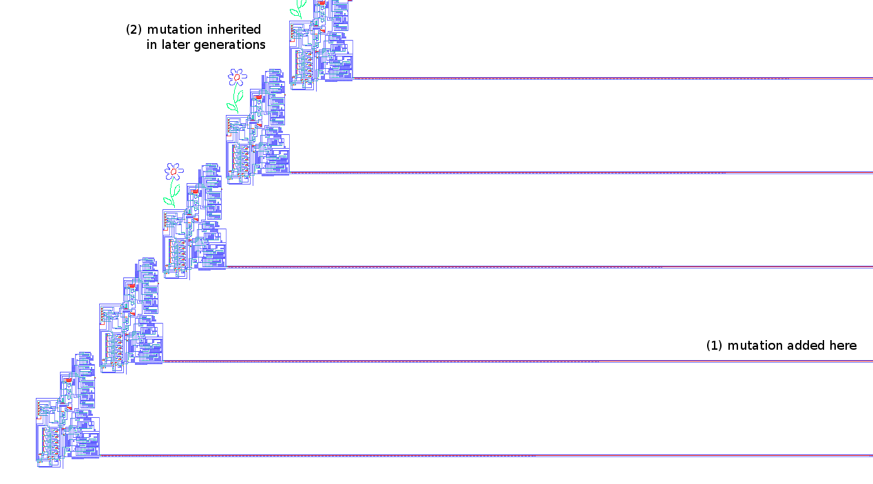 The Pesavento self-reproducing machine, with several generations originating from the machine in the bottom-left. A mutation was added to the genetic tape of the second generation, this mutation is expressed and inherited in all later generations.